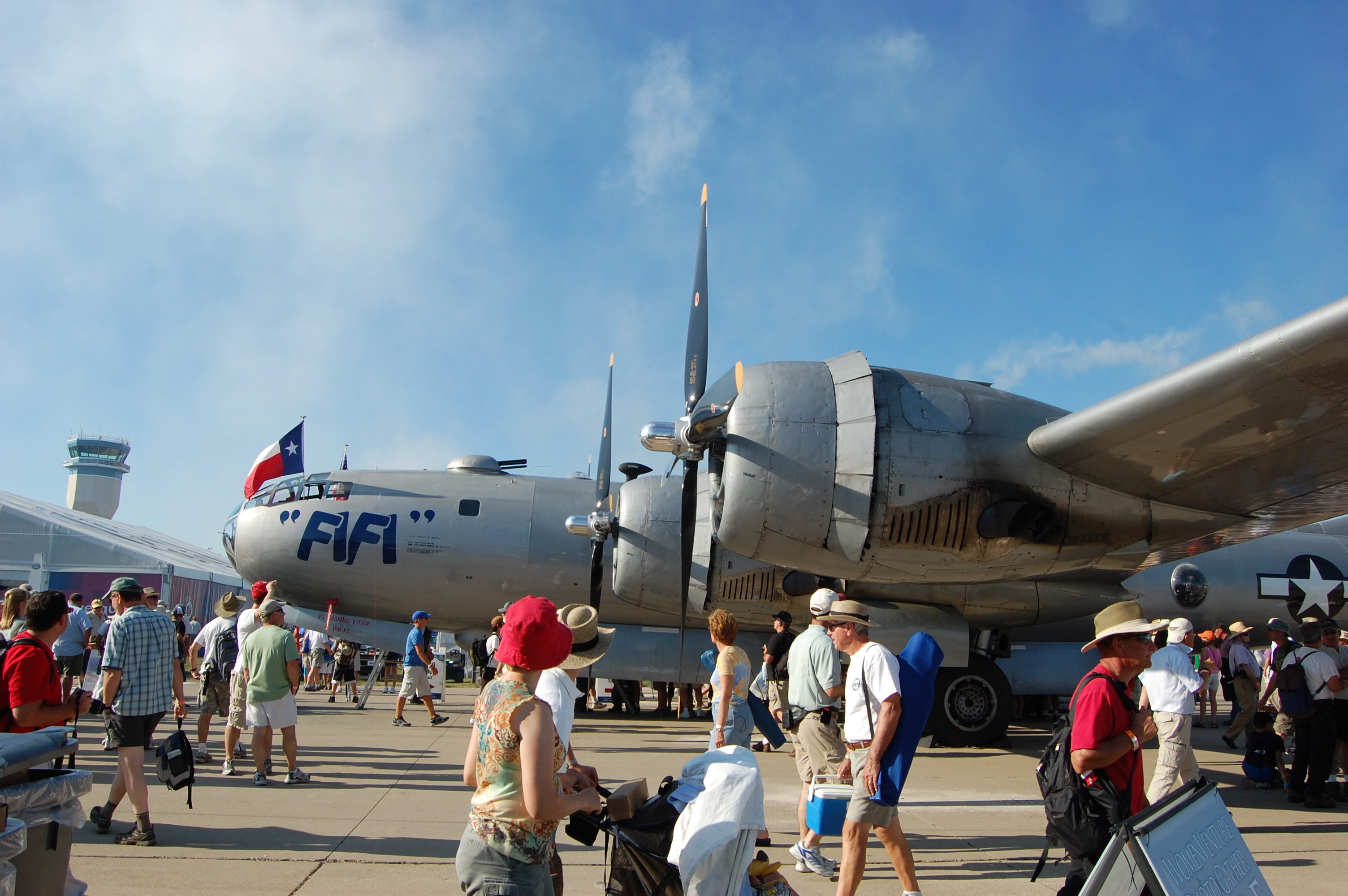 Fifi, the world's onyl flying B-29, as seen at Oshkosh 2011